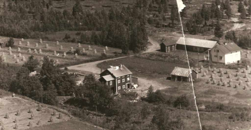 A mill in Piehinki, Finland. It was designed and built in 1935 by Erkki Sippala.